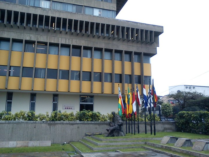 HQ of Comunidad Andina, Lima, Peru